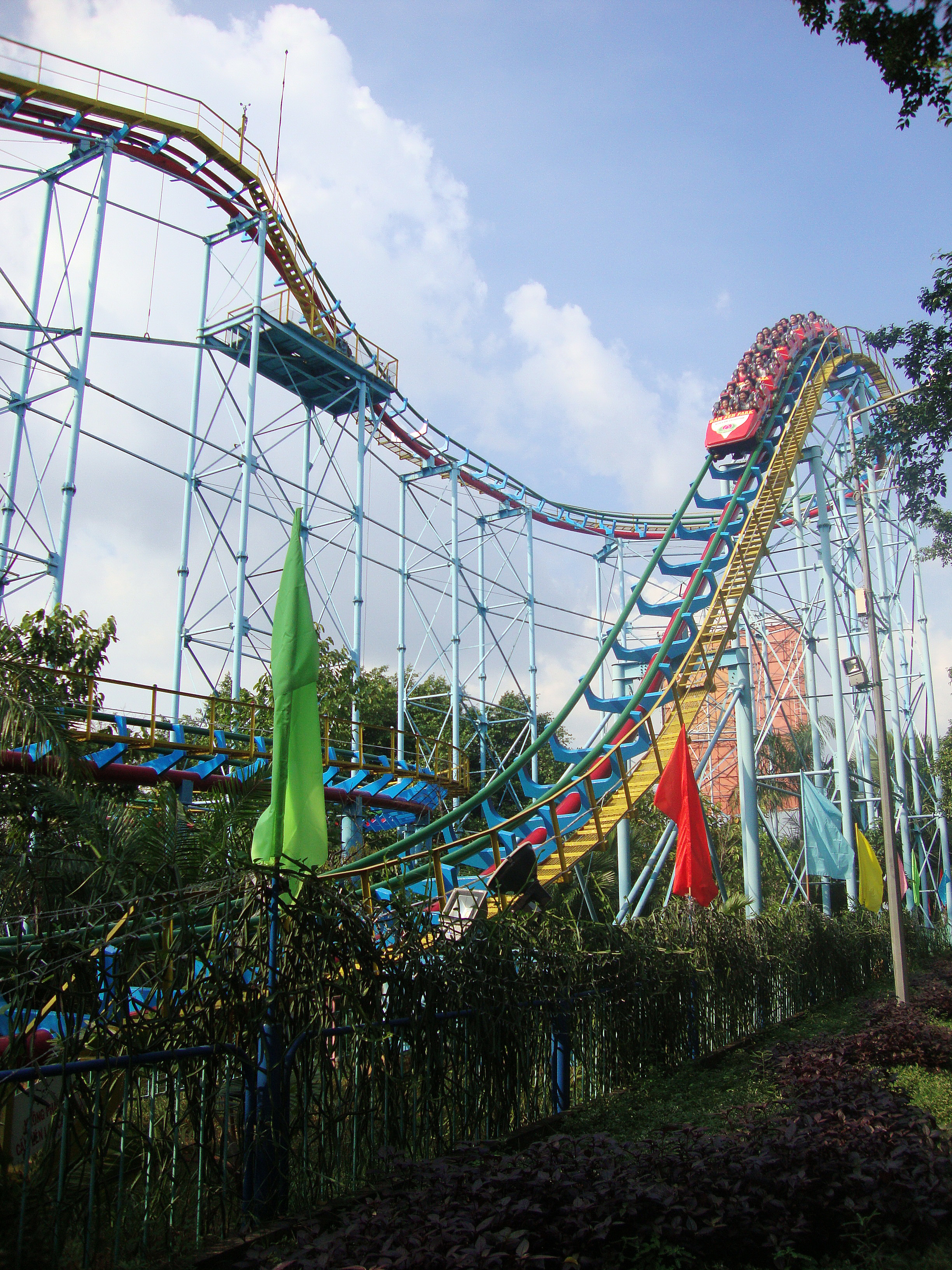 "Roller coaster" ride